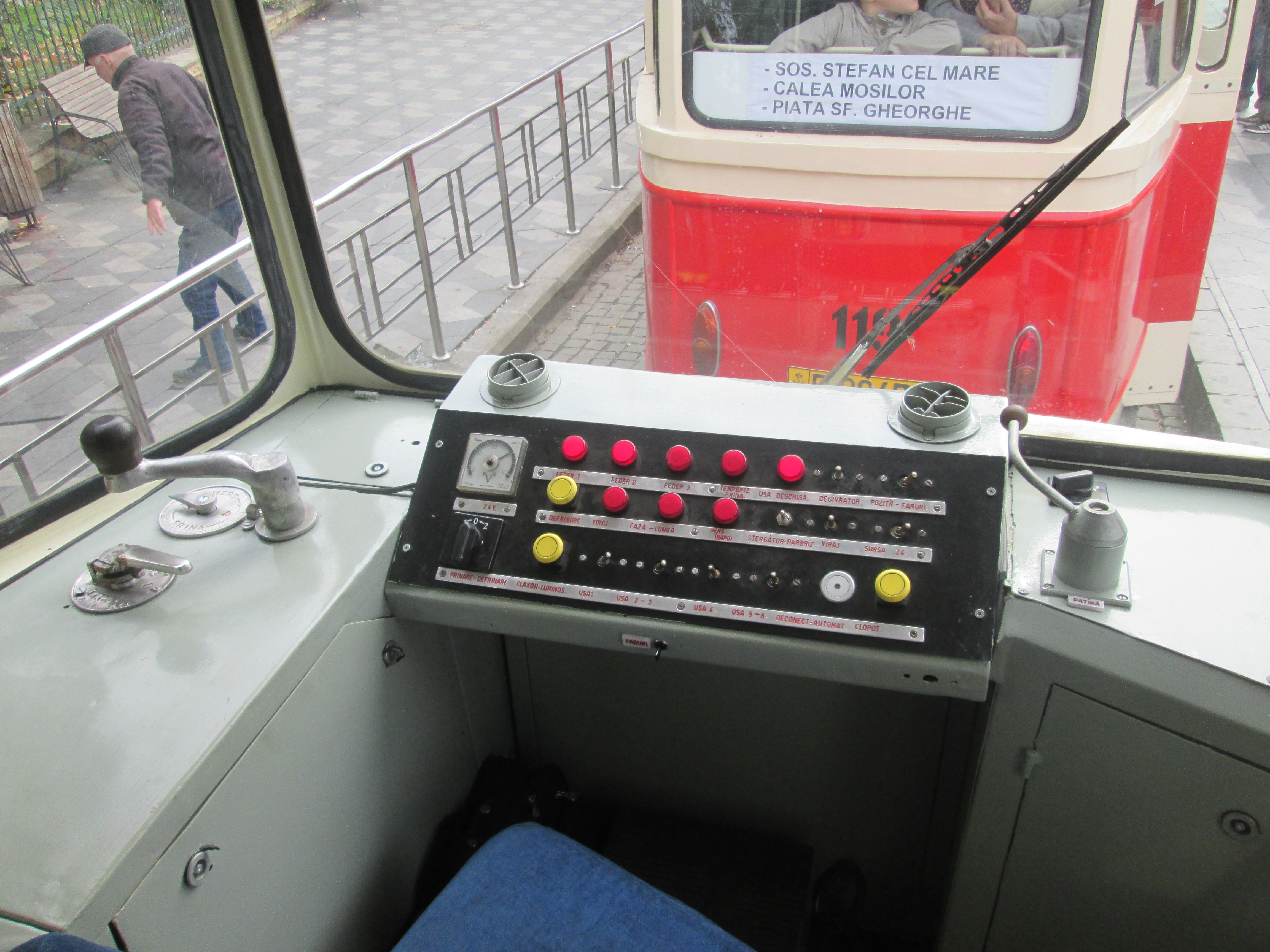 Driving cab of the Electroputere/V3A tram number 6001.